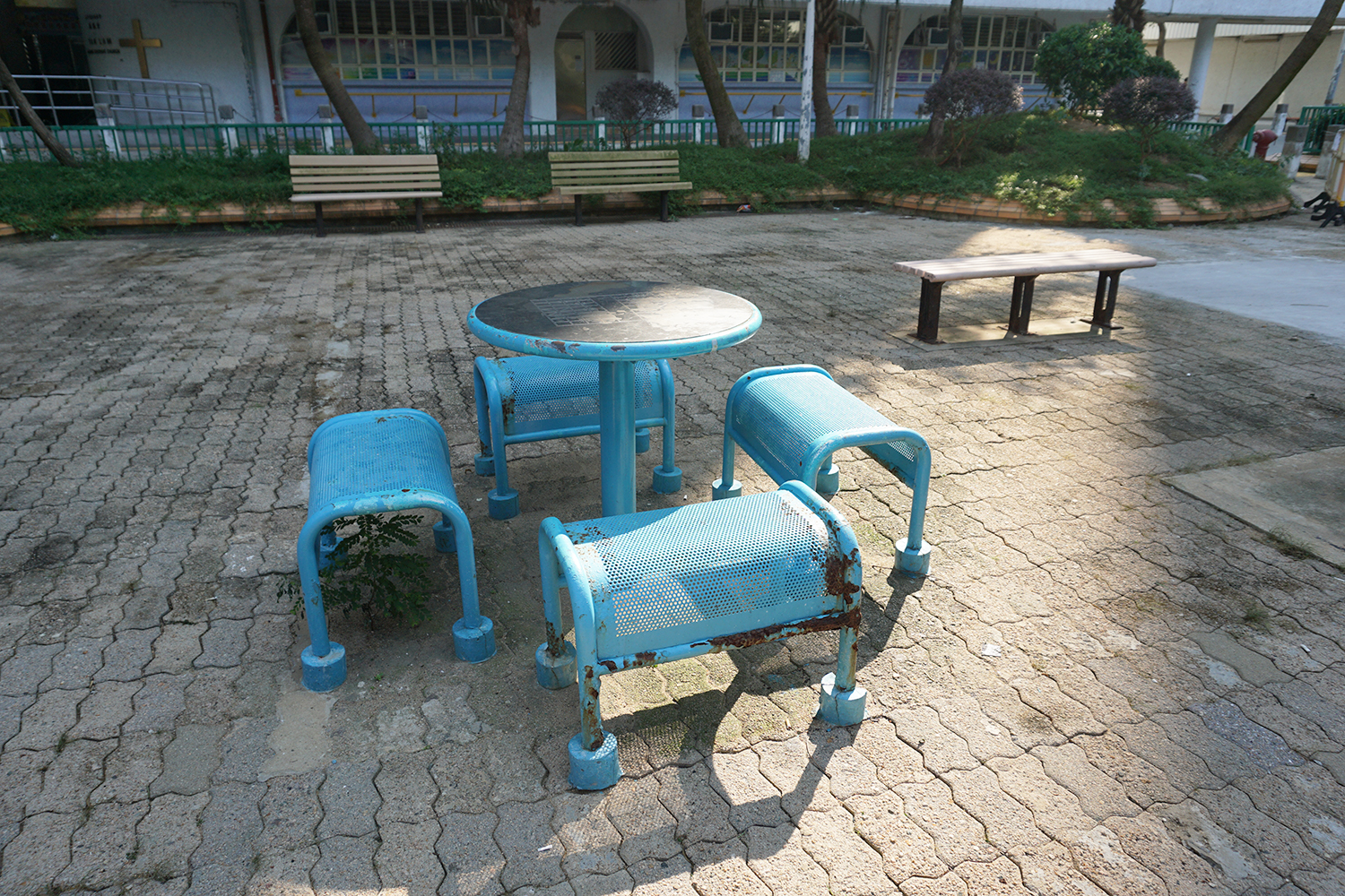 Po Lam Estate in Po Lam, Hong Kong.